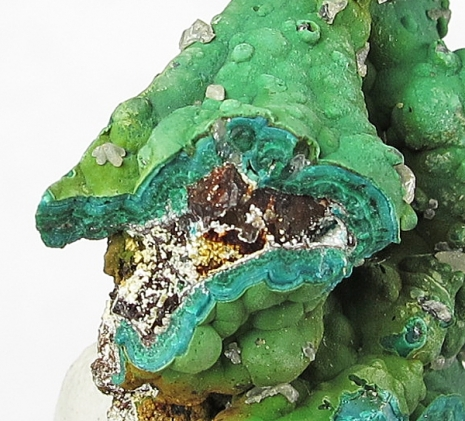 Otavite, Malachite, Cerussite Locality: Tsumeb Mine (Tsumcorp Mine), Tsumeb, Oshikoto Region (Otjikoto Region), Namibia Size: 3.4 cm x 3 cm x 2.2 cm Otavite is cadmium carbonate and is one of the rare species the Tsumeb Mine is famous for and is also the Type Locality. This is a very subtle, yet sculptural and important rare combination miniature. The otavite is the dense clusters of white microcrystals visible on the lower front, side and back of the piece. Banded bubbly, botryoidal malachite covers the matrix and is nicely accented with a sprinkling of tiny, glassy cerussite crystals. From a major rarites collector, who confirmed the otavite by XRD. Most otavite sold on the market is simply not the real deal, and each piece must be analyzed to believe it.